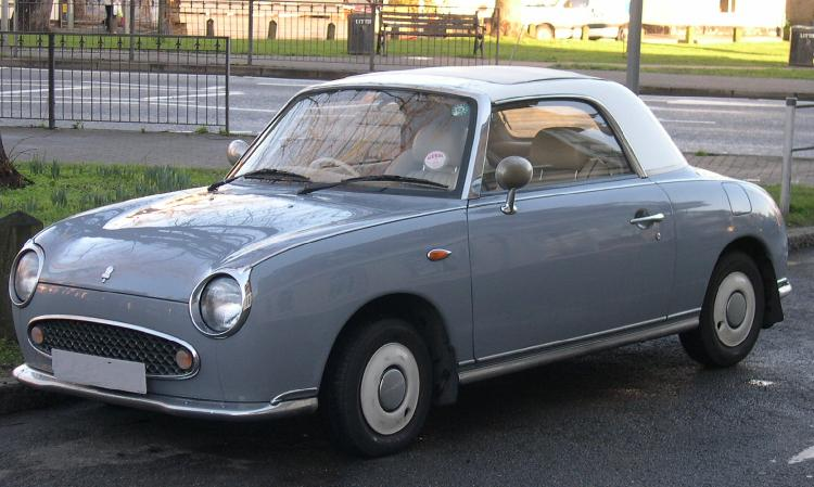 Nissan Figaro front 19:48, 21 January 2005 Sfoskett 750x449 (59984 bytes) (Nissan Figaro Front)